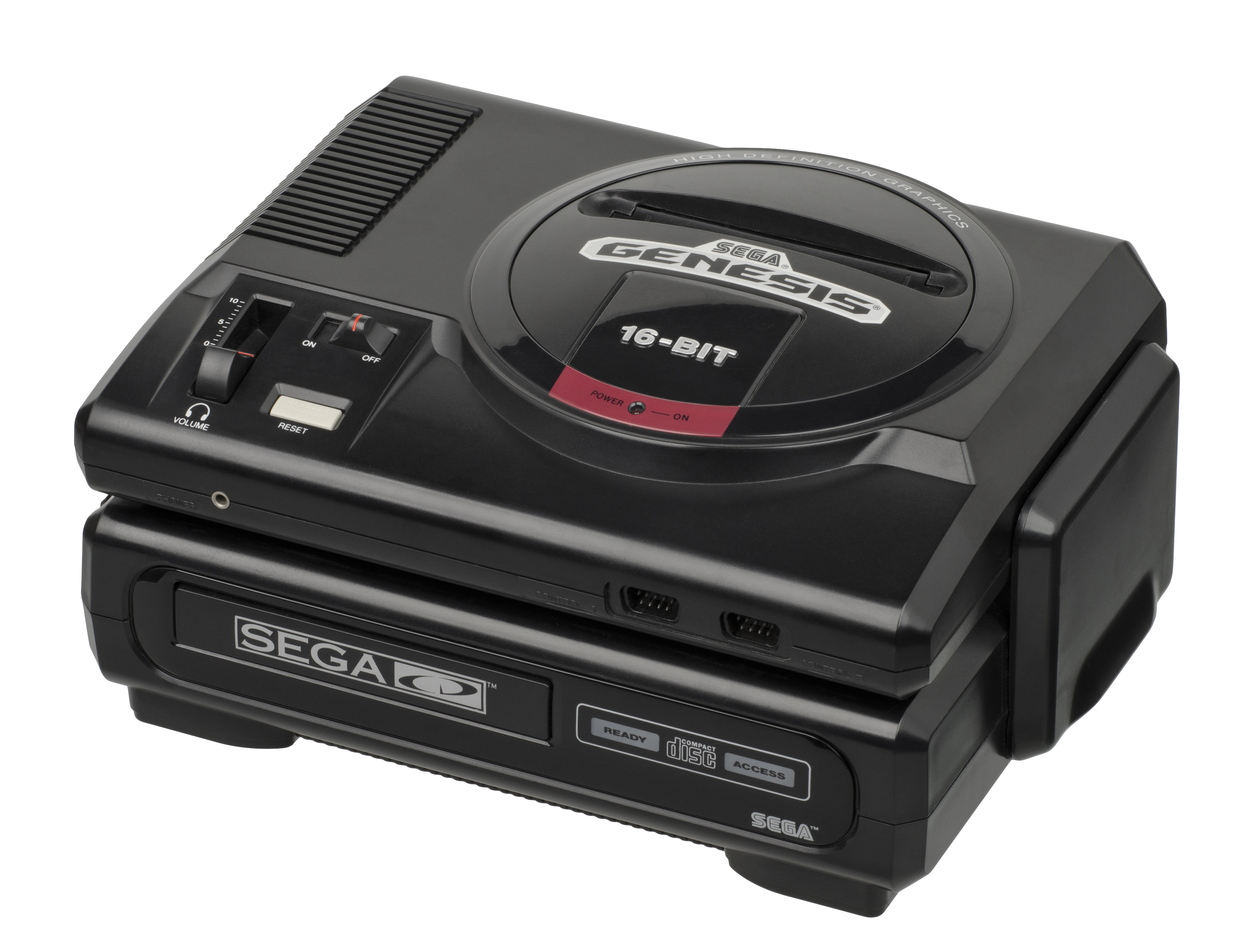 A model 1 Sega CD attached to a model 1 Sega Genesis video game console. This is a CD-ROM drive add-on that was released by Sega for its Genesis/Mega Drive video game console in 1991.